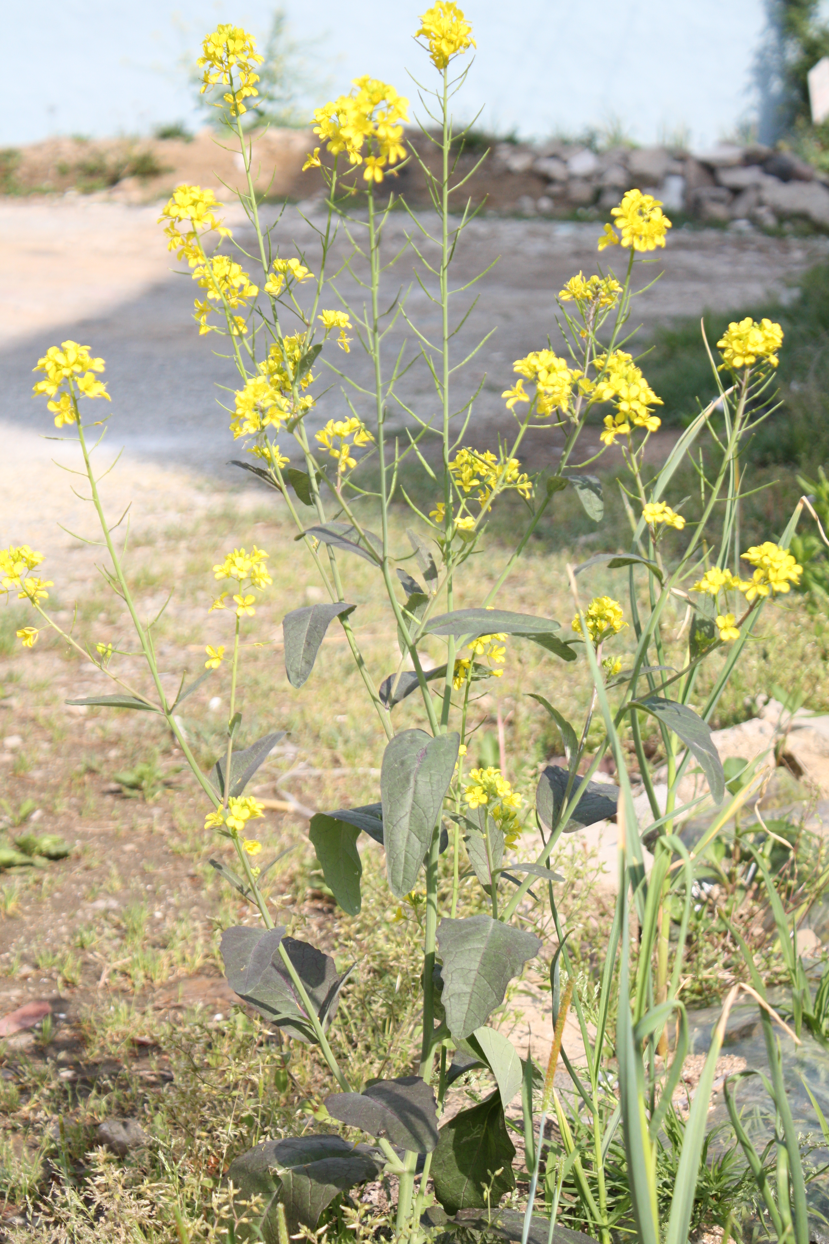 Brassica juncea var. juncea